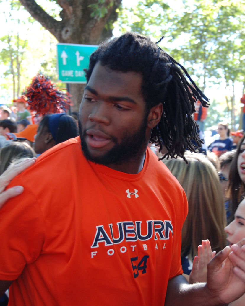 Quentin Groves, an American football defensive end during his senior season playing college football for Auburn University.